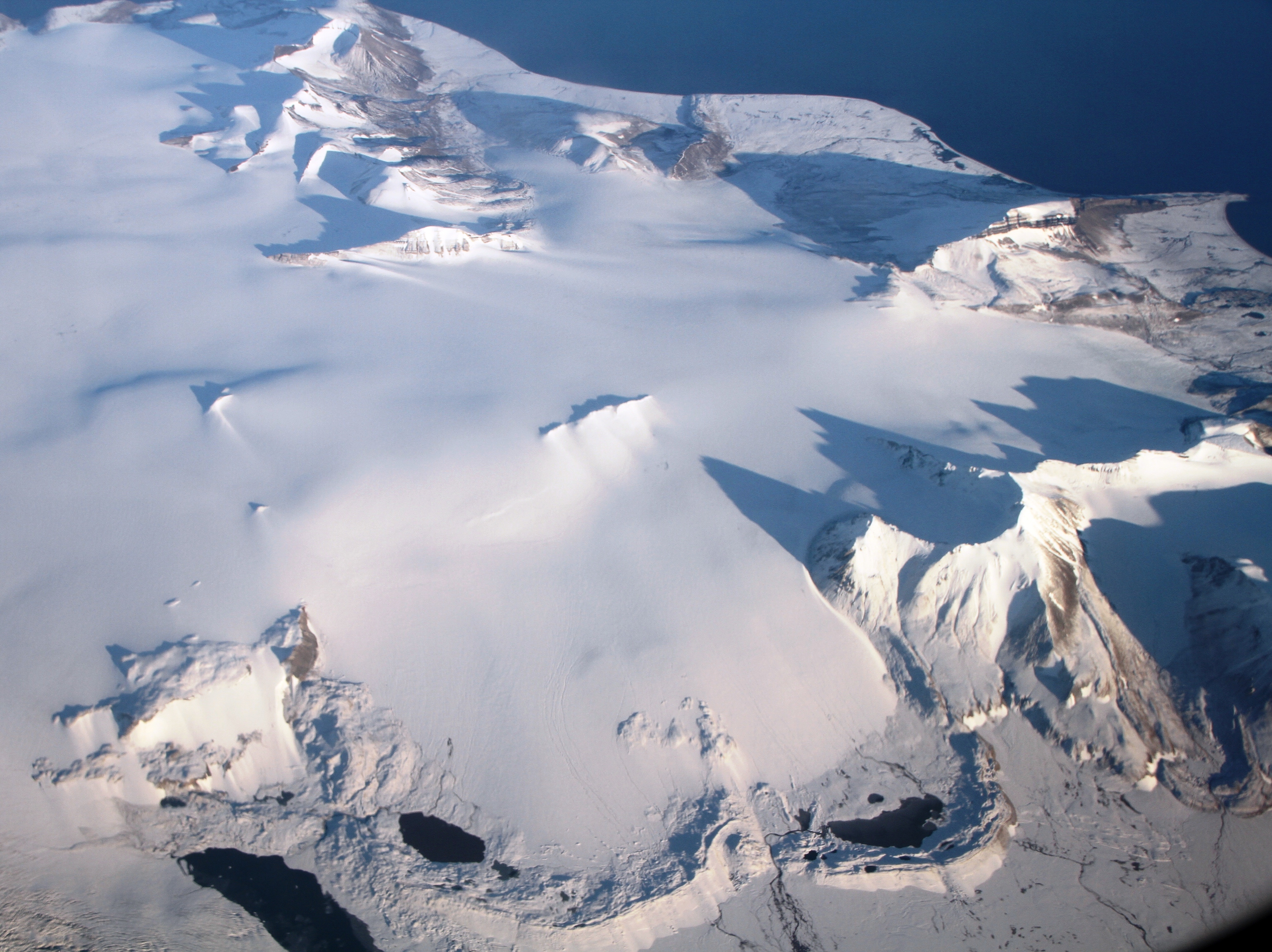 Aerial photo, from the west towards east, of the Sørkapp Land southernmost parts of Spitsbergen, Svalbard.